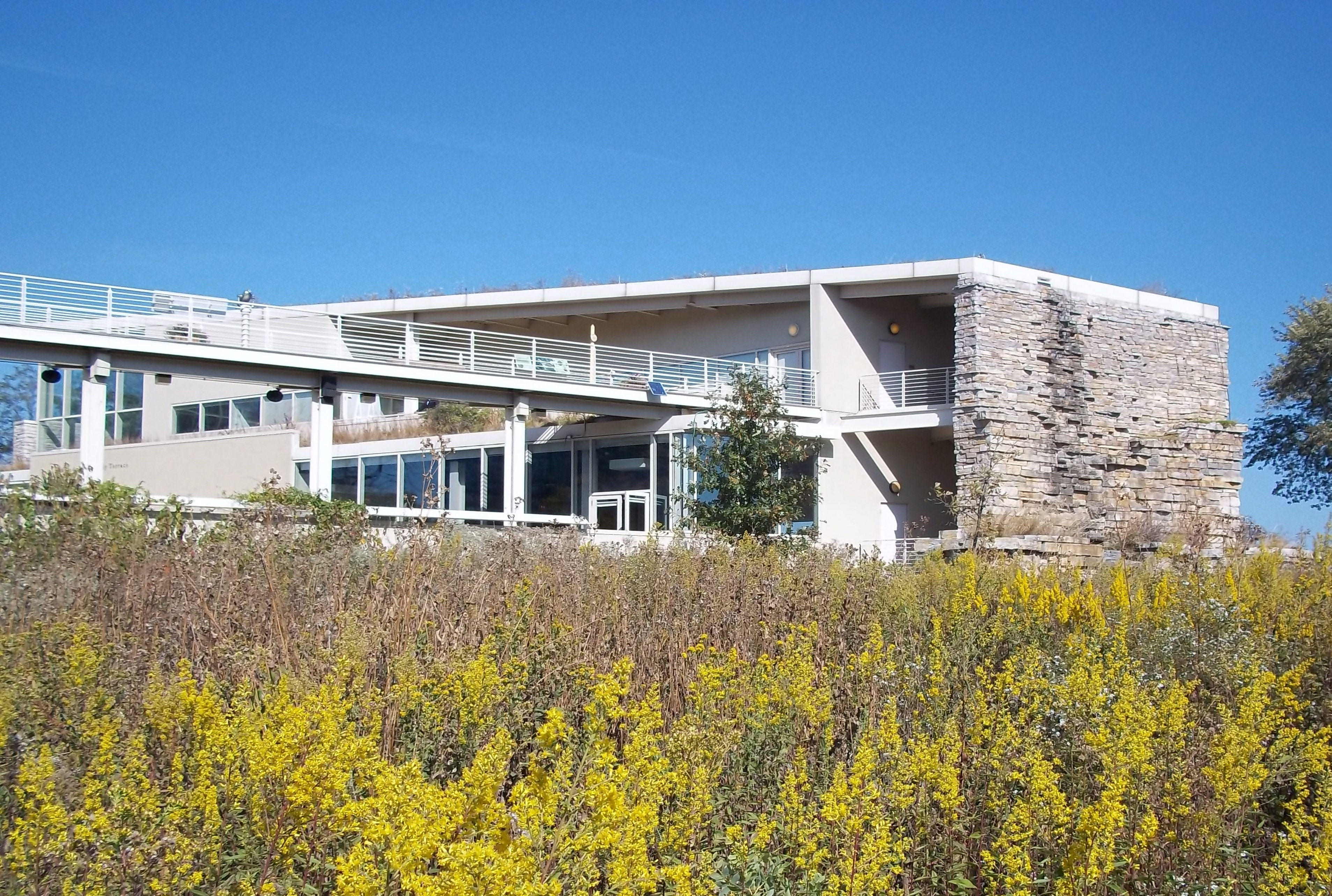 Chicago Academy of Science Peggy Notabaert Nature Museum